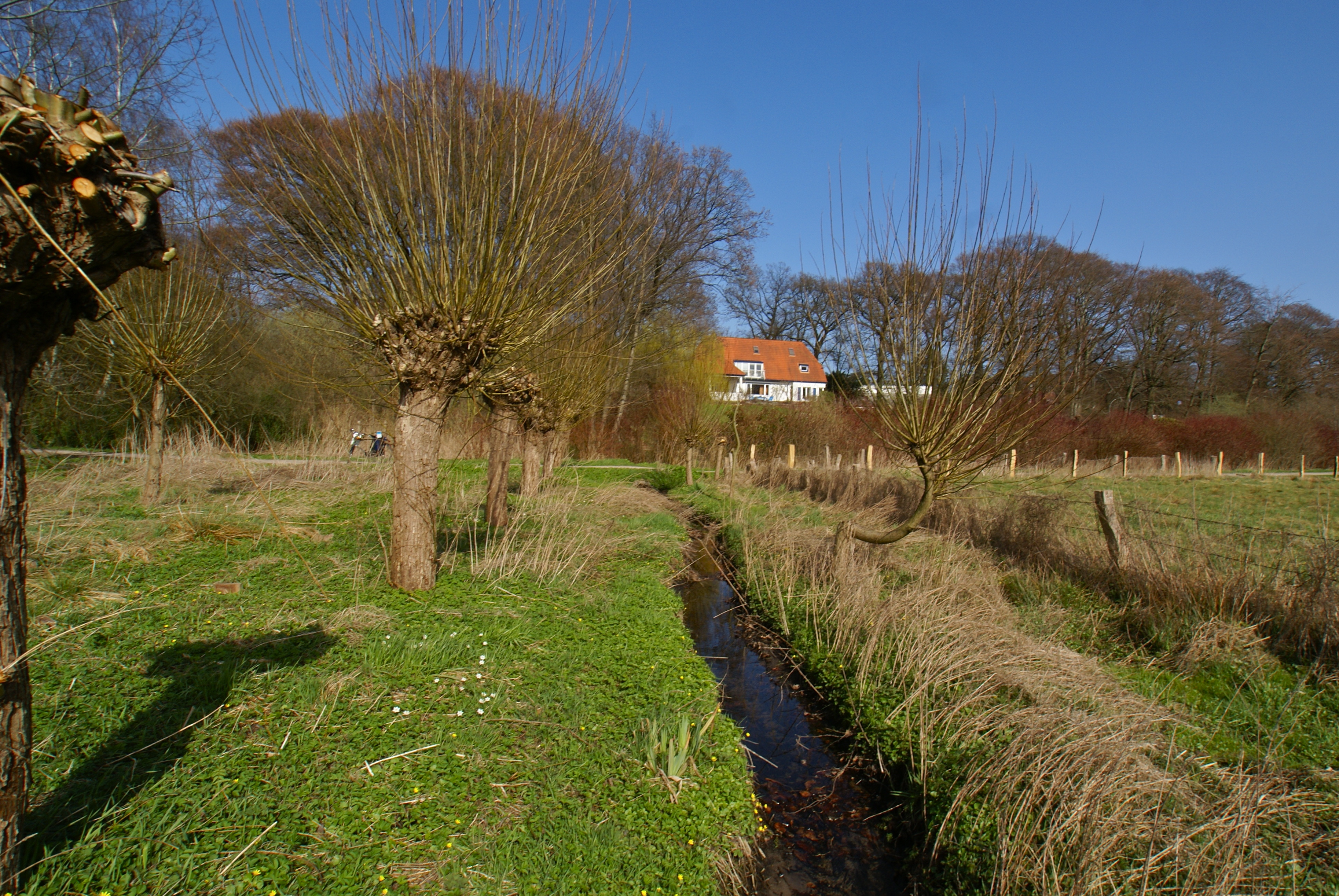 Hamburg (Volksdorf), Germany: The river Gussau in the natural reserve Volksdorfer Teichwiesen